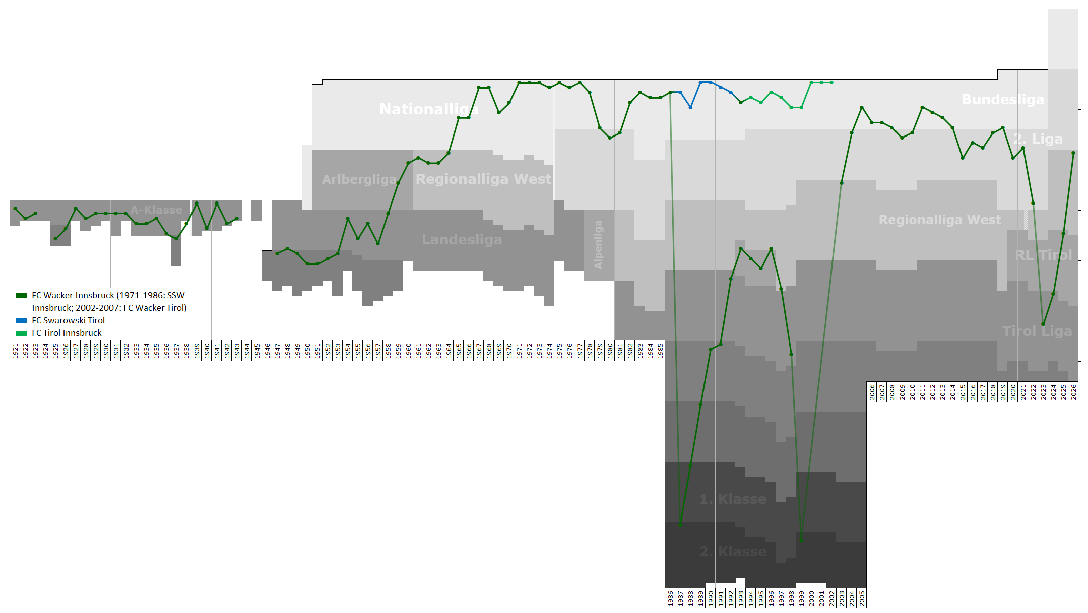 Chart of end-season table positions of Wacker Innsbruck and its predecessors in the Austrian football league system. Data source: RSSSF, , regiowiki.at, tfv.at, wikipedia